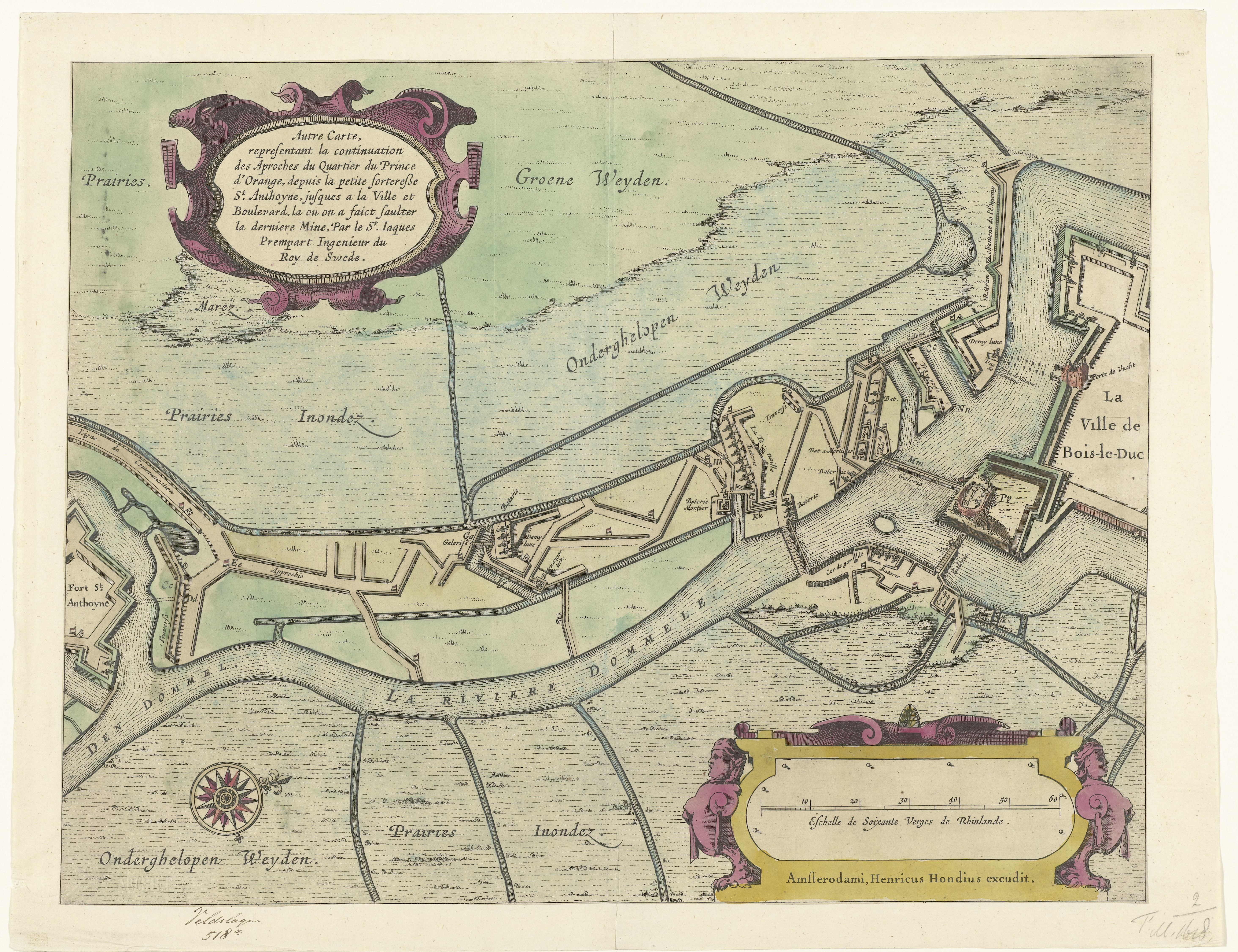 trenches reaching the city defenses of Den Bosch, 1629